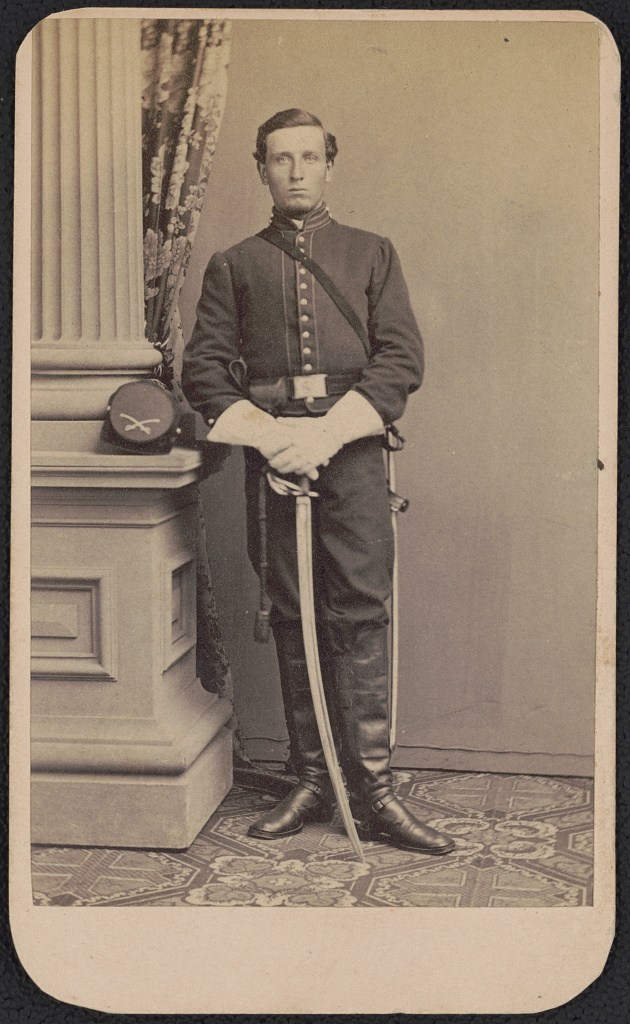 Private John E. Wildes of Co. B and Co. E, 15th Pennsylvania Cavalry Regiment in uniform with sword, Library of Congress Prints and Photographs Division